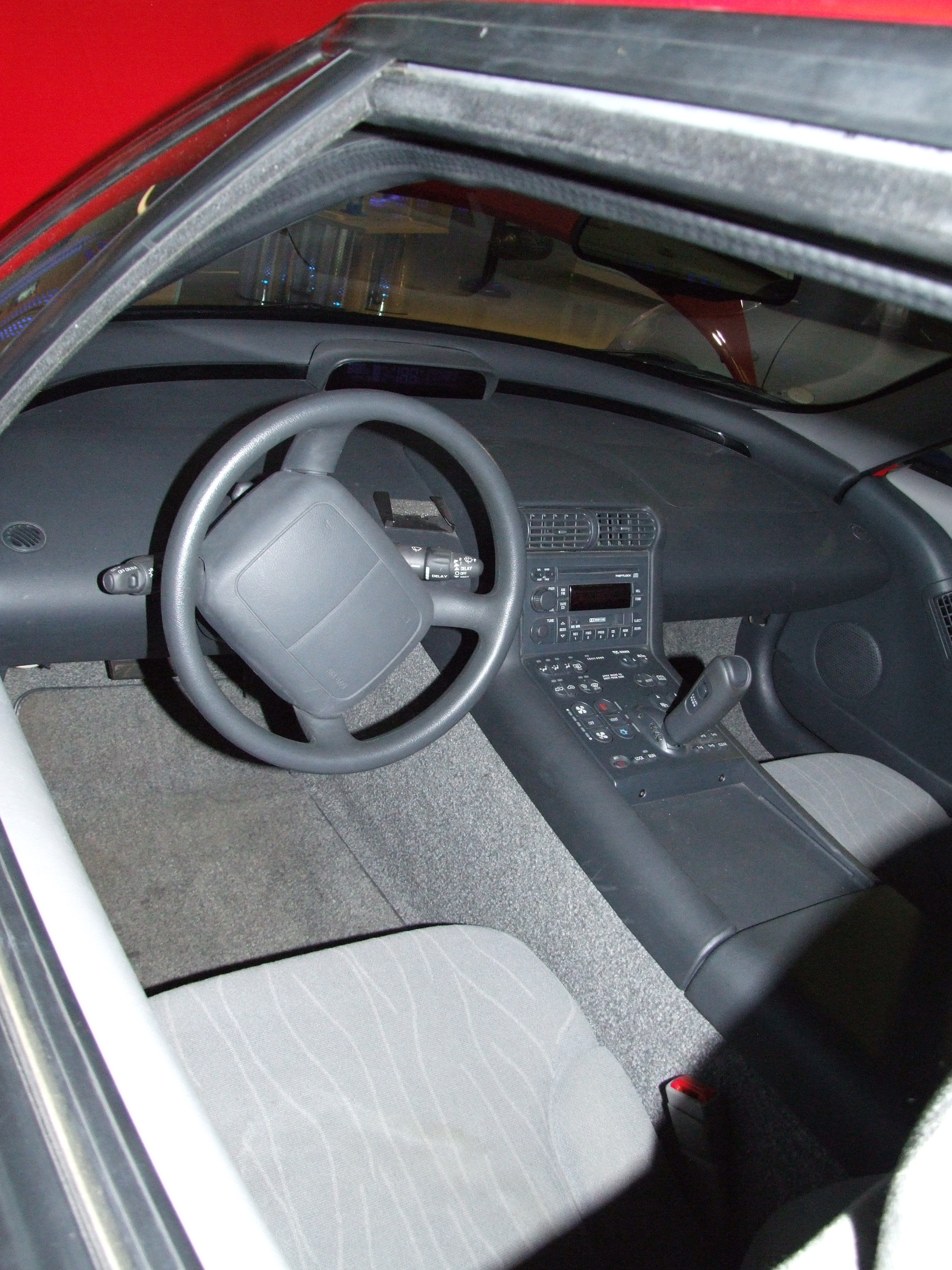 Cockpit of the General Motors EV1, picture taken at Museum Autovision, Altlußheim, Germany, one of three existing EV1